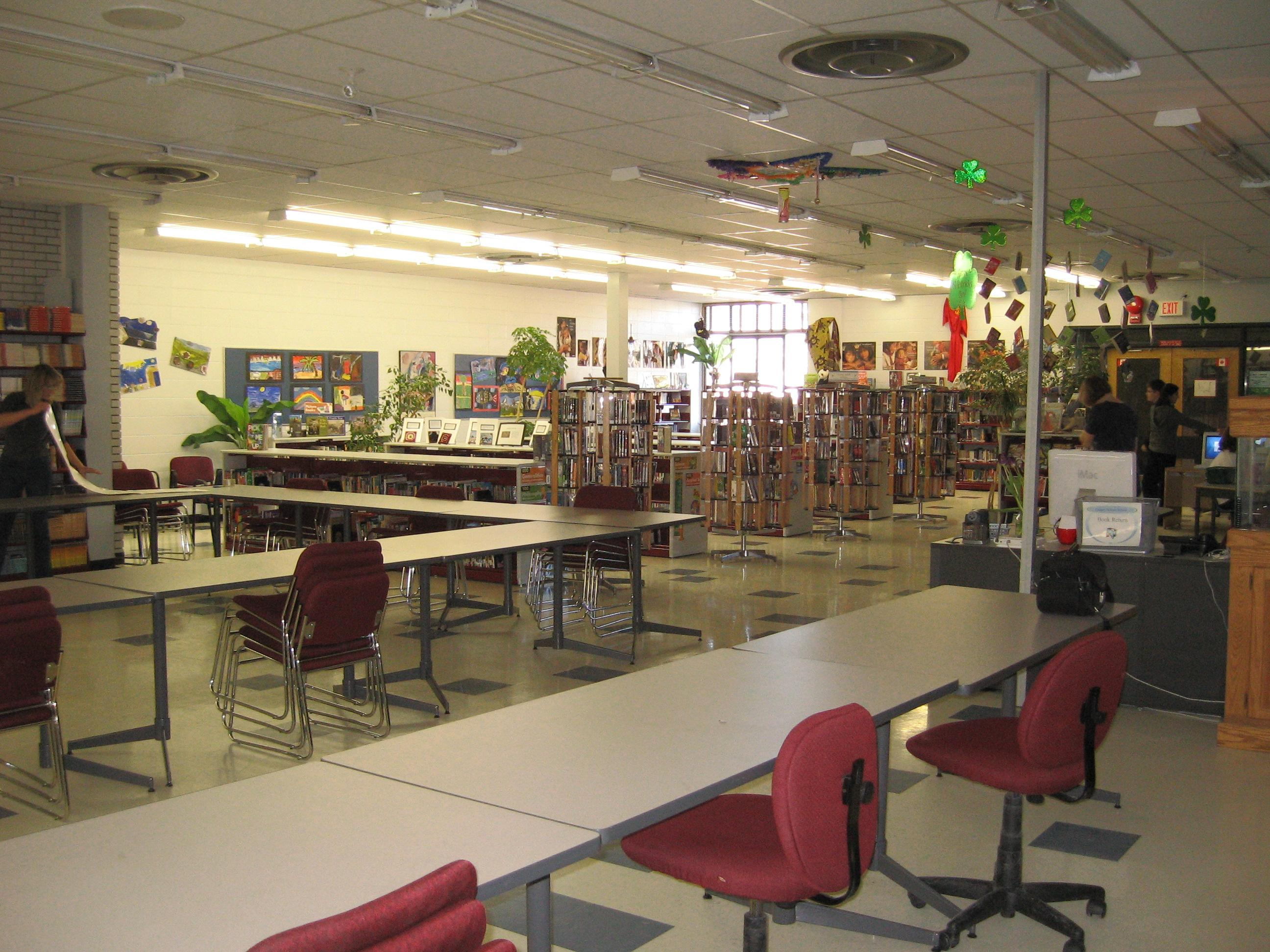 I took the image of my school's library.